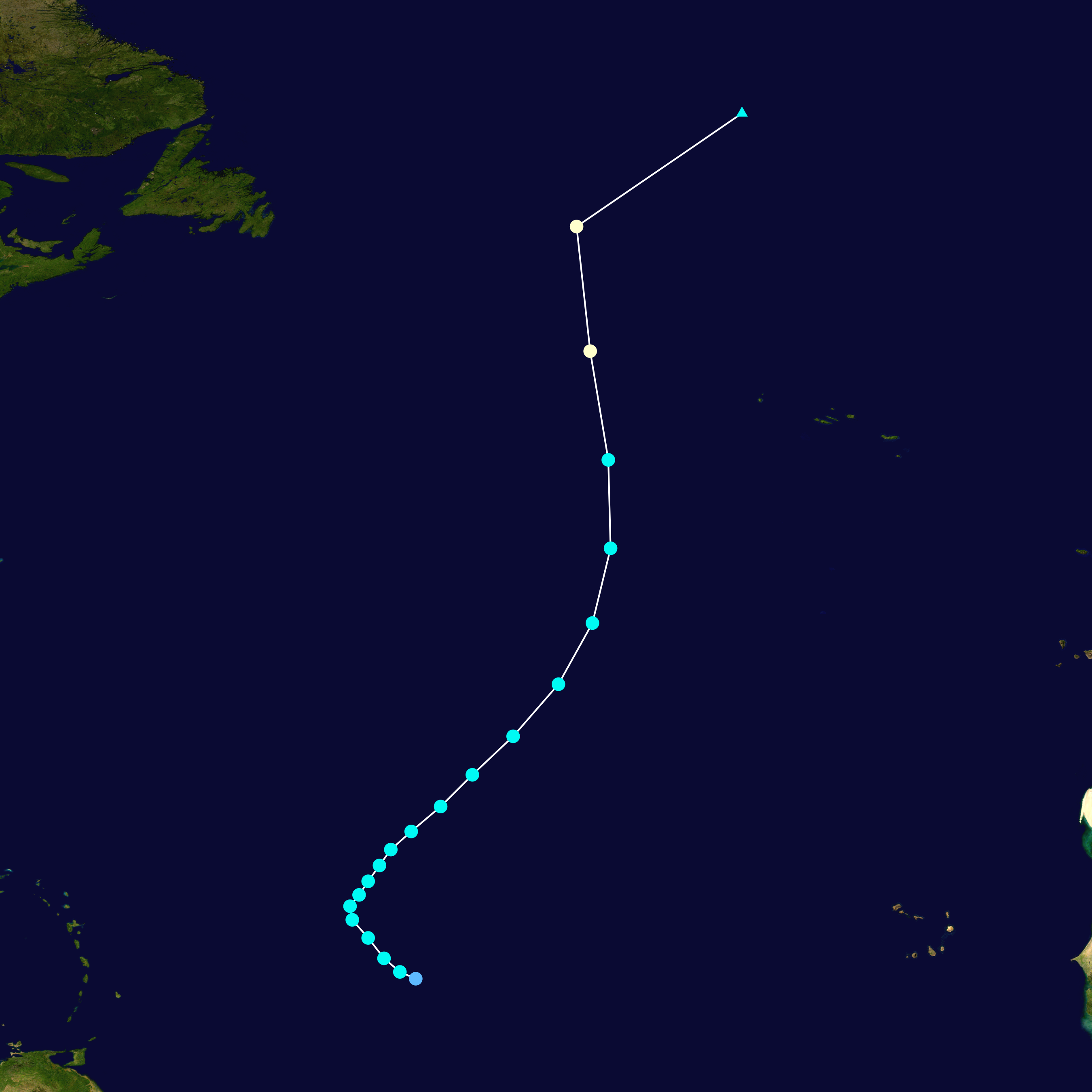 Track map of Hurricane Lisa of the 1998 Atlantic hurricane season. The points show the location of the storm at 6-hour intervals. The colour represents the storm's maximum sustained wind speeds as classified in the Saffir–Simpson scale (see below), and the shape of the data points represent the nature of the storm, according to the legend below. Saffir–Simpson scale Tropical depression≤38 mph≤62 km/h Category 3111–129 mph178–208 km/h Tropical storm39–73 mph63–118 km/h Category 4130–156 mph209–251 km/h Category 174–95 mph119–153 km/h Category 5≥157 mph≥252 km/h Category 296–110 mph154–177 km/h Unknown Storm type Tropical cyclone Subtropical cyclone Extratropical cyclone / Remnant low / Tropical disturbance / Monsoon depression